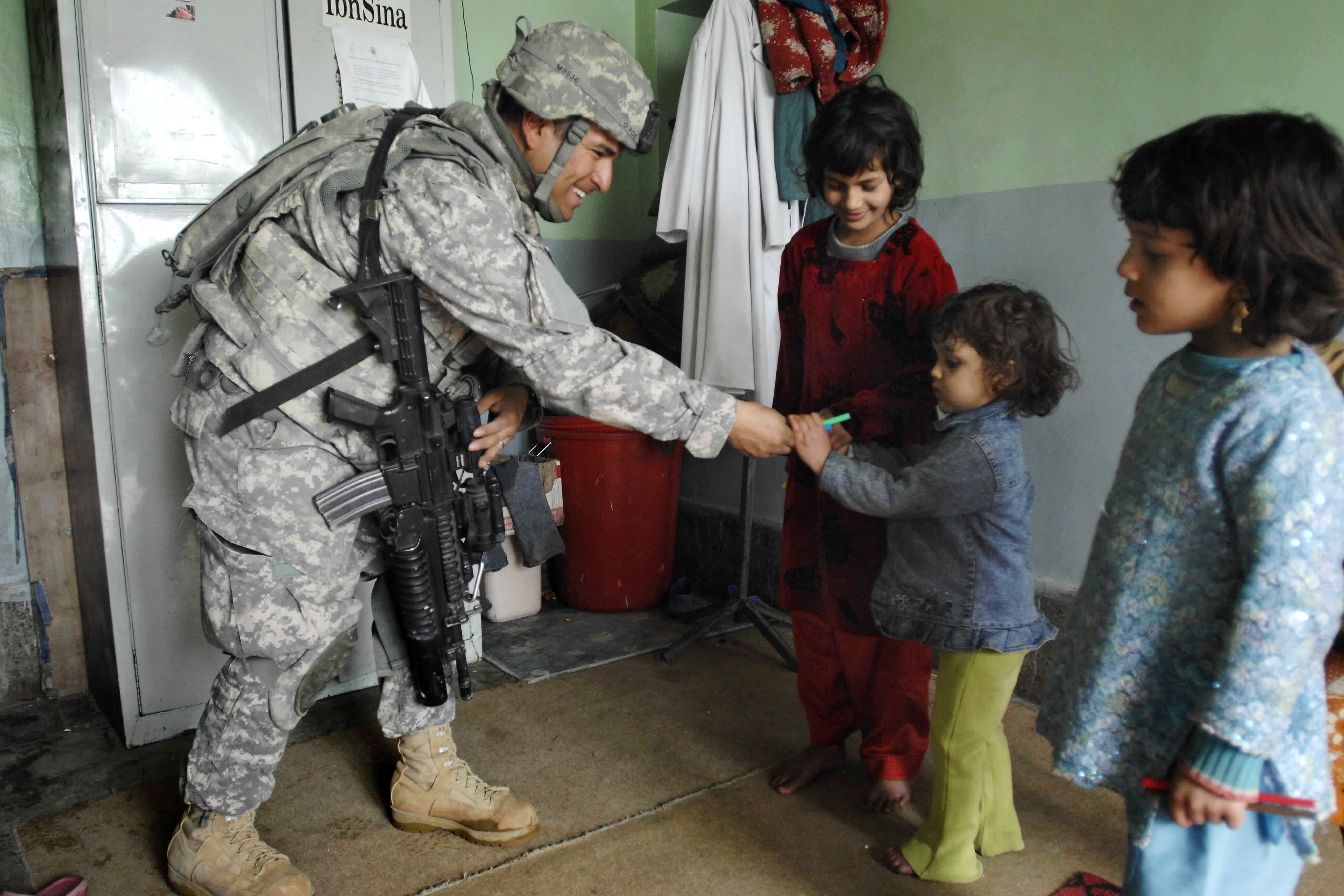 U.S. Army Sgt. Heriberto Medina gives a pen to a little girl at the hospital in Paktia province, Afghanistan, during a stop by the Paktia Provincial Reconstruction Team, Feb. 17, 2009. Medina, assigned to 1st Battalion, 178th Infantry Regiment, is part of a unit that usually carries pens and candy to give to children.